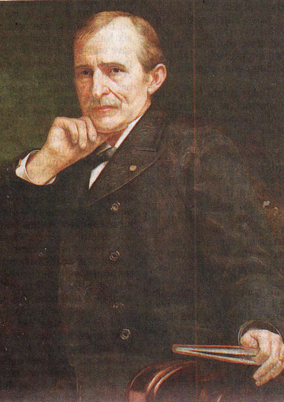 Confederate soldier and U.S. Representative William T. Ellis